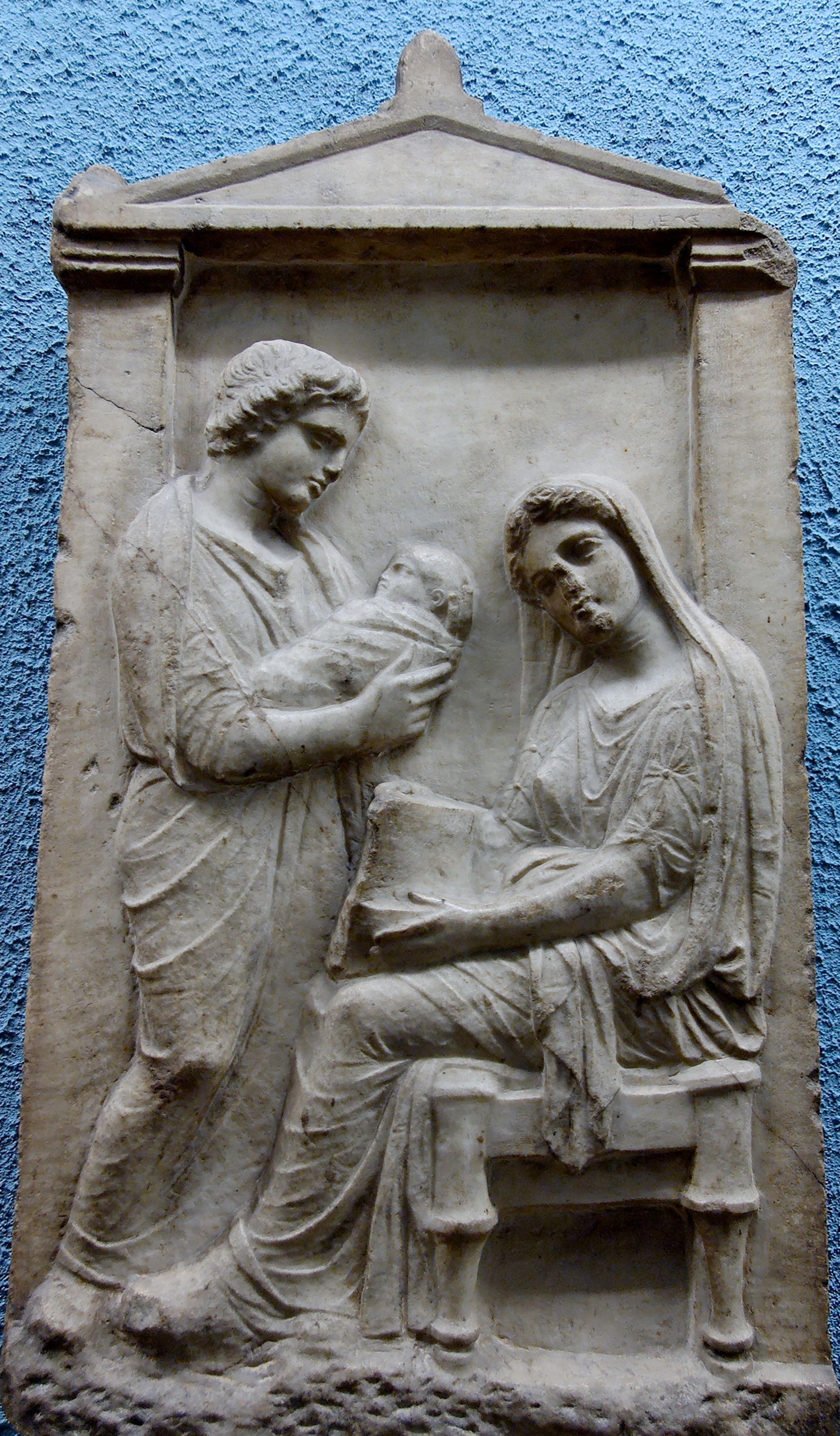 Seated woman leaving her newborn child to the a nurse, funerary stele. Marble, made in Athens, ca. 425–400 BC. From Athens.